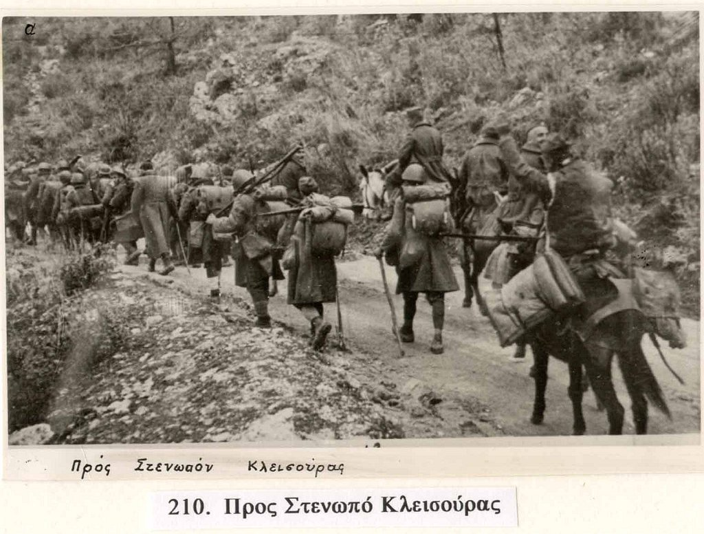 A group of Greek soldiers on there way to Kleisoura Pass.